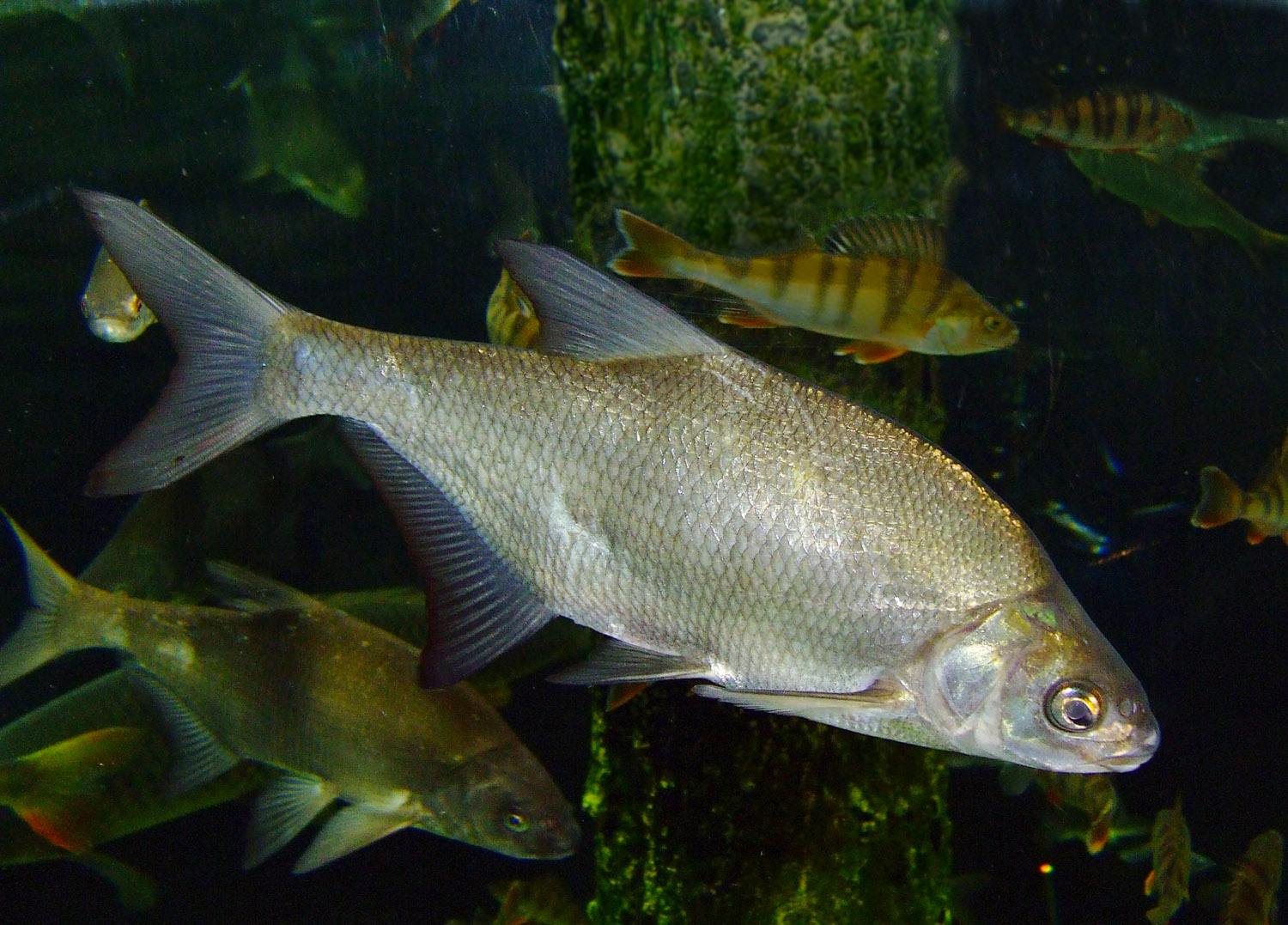 Carp breamHrvatski: Deverika